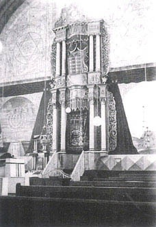 Interior of the Hurva Synagogue in the old city of Jerusaelm as it stood before 1948.